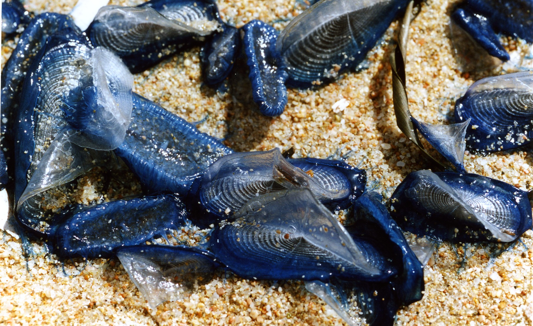 Velellae on beach in Corsica (West Corsica)